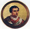 Portrait of Pope Anastasius III, painted before 1923